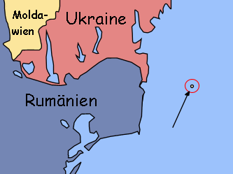 Snake Island Location Map German Version